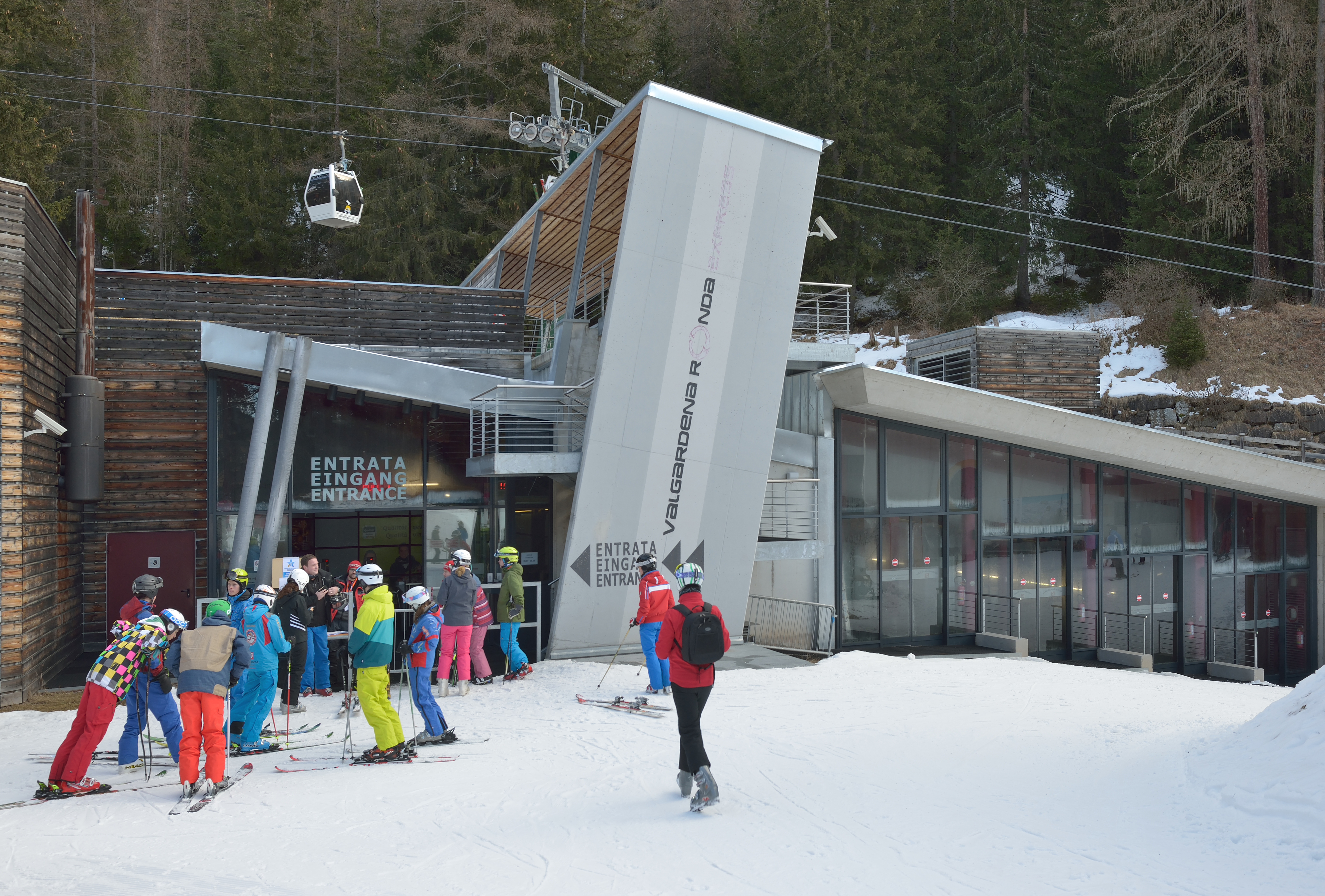 Hill station of the Gardena Ronda Express train in Gröden